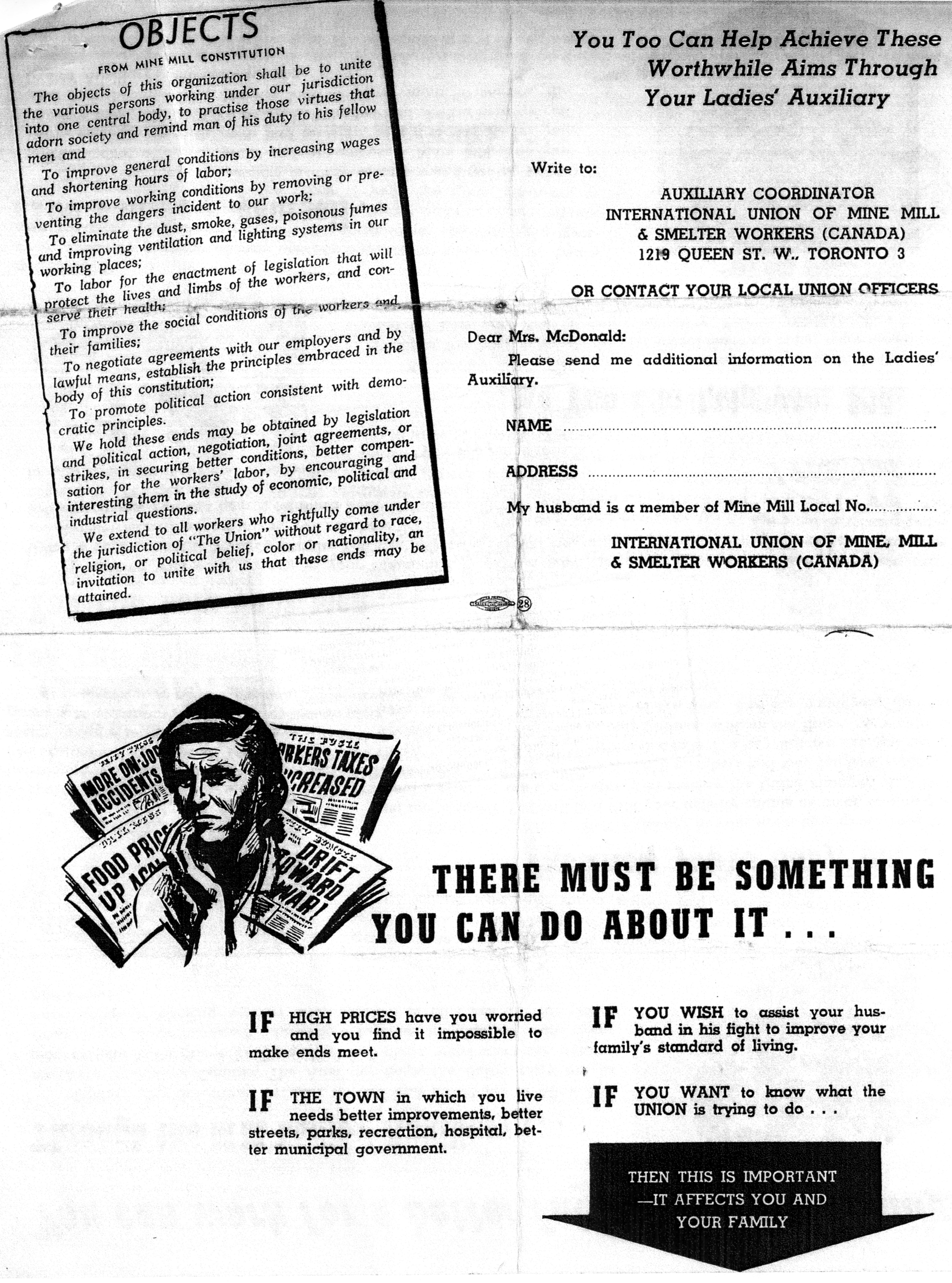 Recruitment material from the Ladies Auxiliary of the International Union of Mine Mill and Smelter Workers